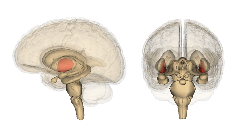 globus pallidus. Images are from Anatomography maintained by Life Science Databases(LSDB).